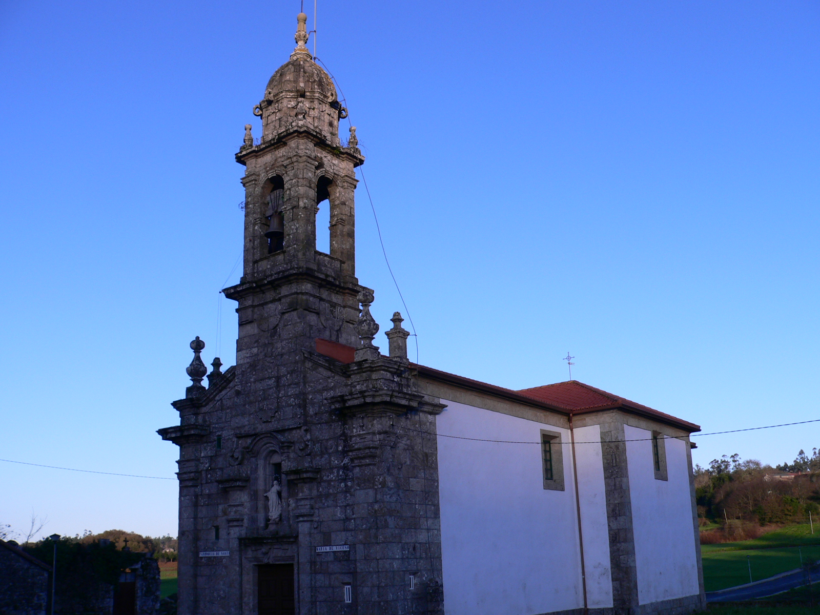 Viceso parish church of in Brión, A Coruña, Galicia, Spain.